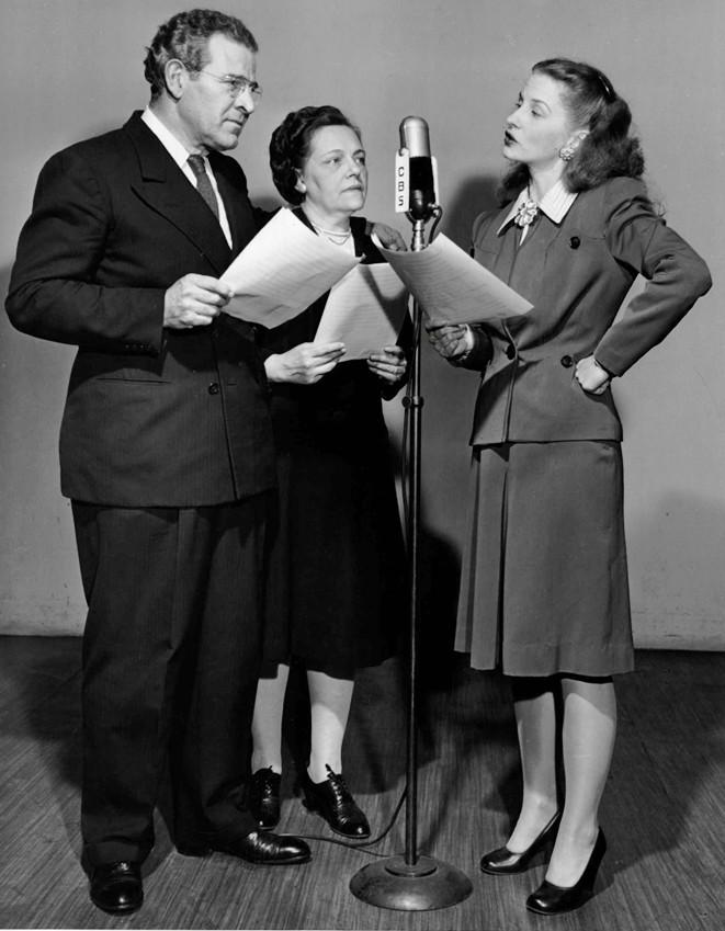 Photo of Cameron Prud'homme (David Harum), Charme Allen (Aunt Polly) and Joan Tompkins (Susan Price Wells) from the radio serial David Harum.